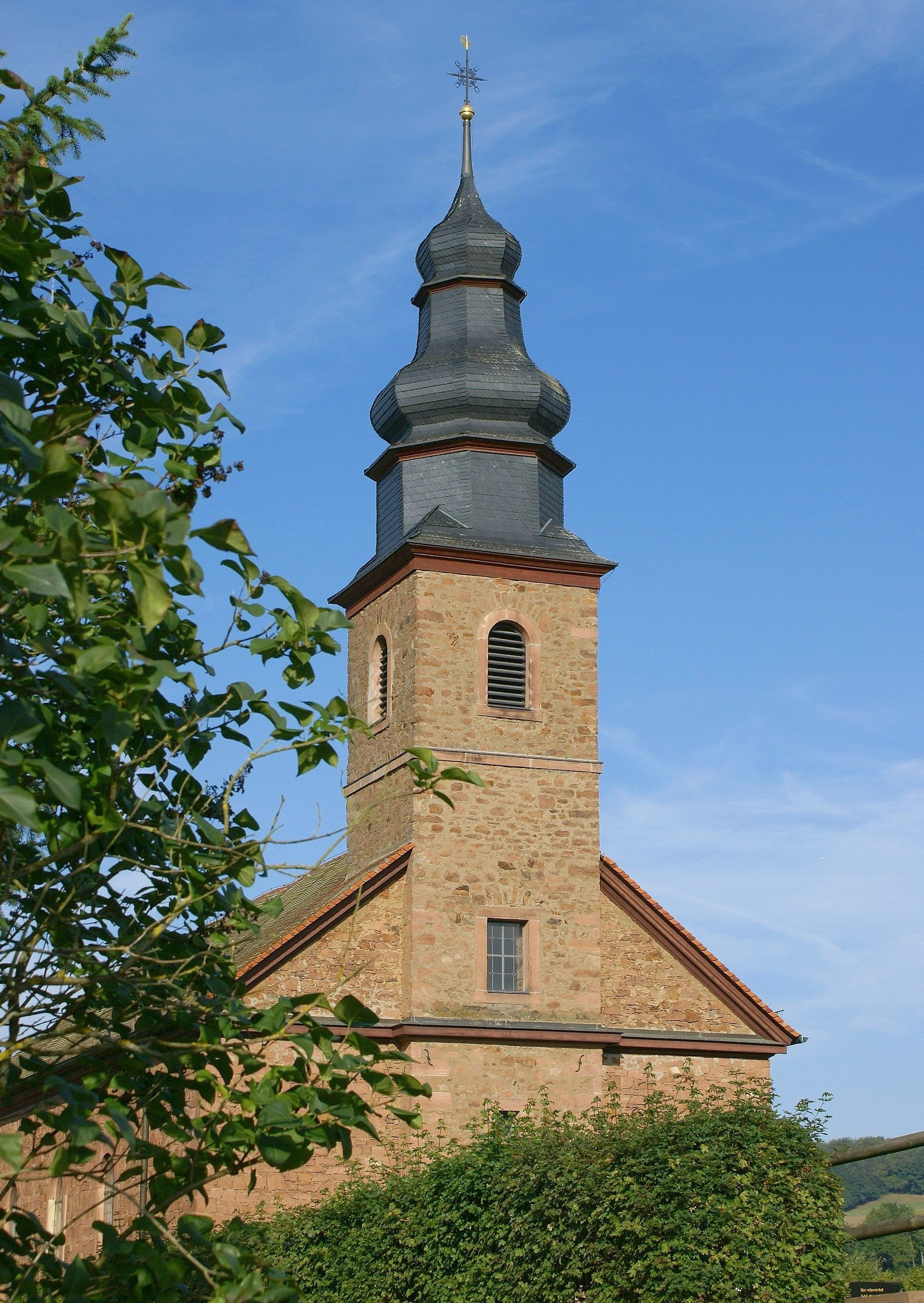 Belltower of the church of St. Wendelin of the community Westerngrund